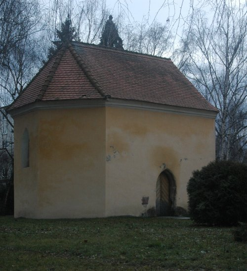 Gothic Chapel, Senica, Slovakia